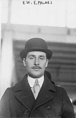 International Polo Player